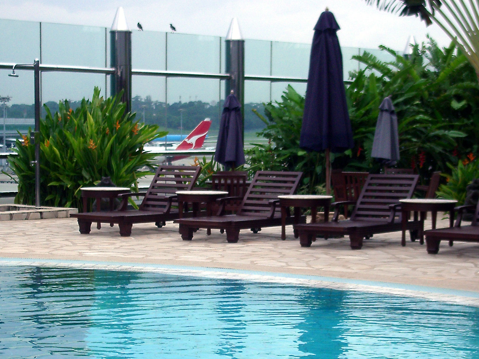 Swimming pool and associated facilities located within the transit area of Terminal 1 at Singapore Changi Airport